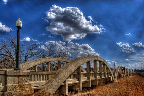 Bridgepixing Rainbow Bridge, one of the famous Marsh Arch Bridges, one of the largest in the United States and the only one of this type in Colorado. This reinforced concrete 11 arch bridge, each with a 90 foot span, crossing the South Platte River, was built in 1923 and is on the National Register of Historic Places. It is located on State Route 52 one mile north of Fort Morgan, which is 80 miles northeast of Denver via Interstate I-76. Additional Bridge Photos and a Bridge Blog at